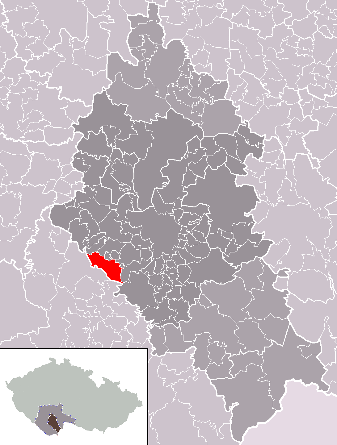 Location of Vrábče municipality within České Budějovice District and administrative area of České Budějovice as a Municipality with Extended Competence.